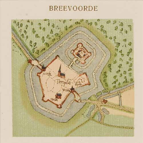 Cityplan of Bredevoort, ca 1560 by Jacob van Deventer